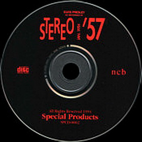 CD of Elvis Presley’s bootleg – As Recorded in Stereo '57 (1994)